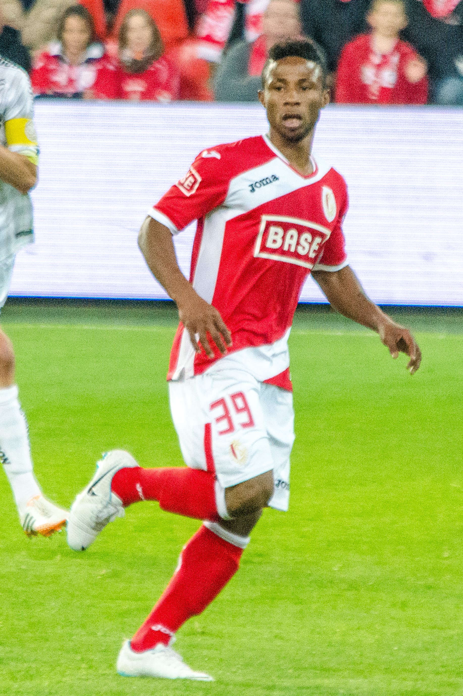 Imoh Ezekiel playing for Standard Liege in 2014.